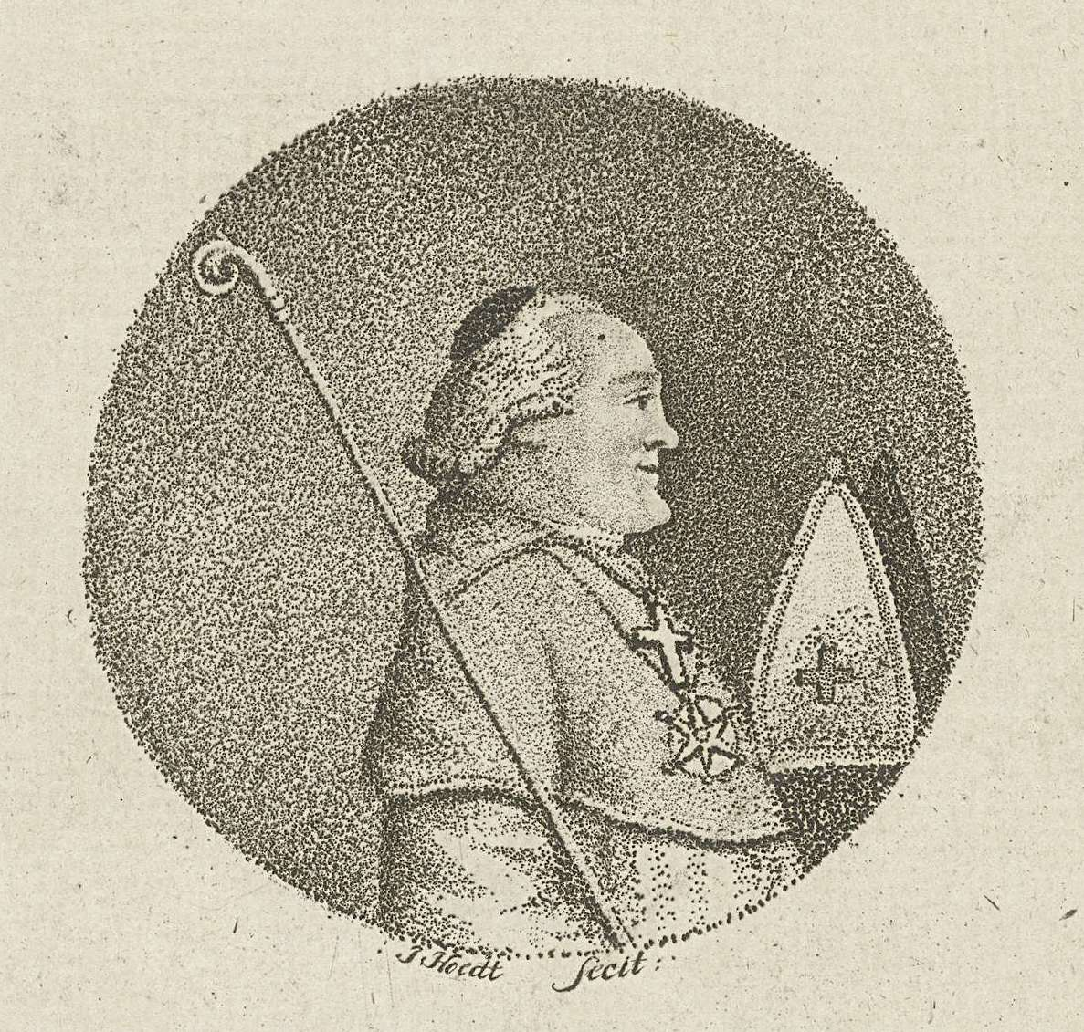 A Confirmation receit with a portrait of Jan van Velde tot Melroy en Sart-Bomal, nominally Bishop of Roermond during the French occupation of the Southern Netherlands. Collection: Rijksmuseum Amsterdam, ref. nr. RP-P-1910-1789.